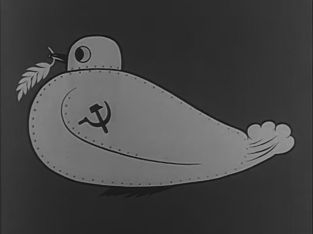 The Big Lie, 1951 anti-communist propaganda movie by the U.S. Army